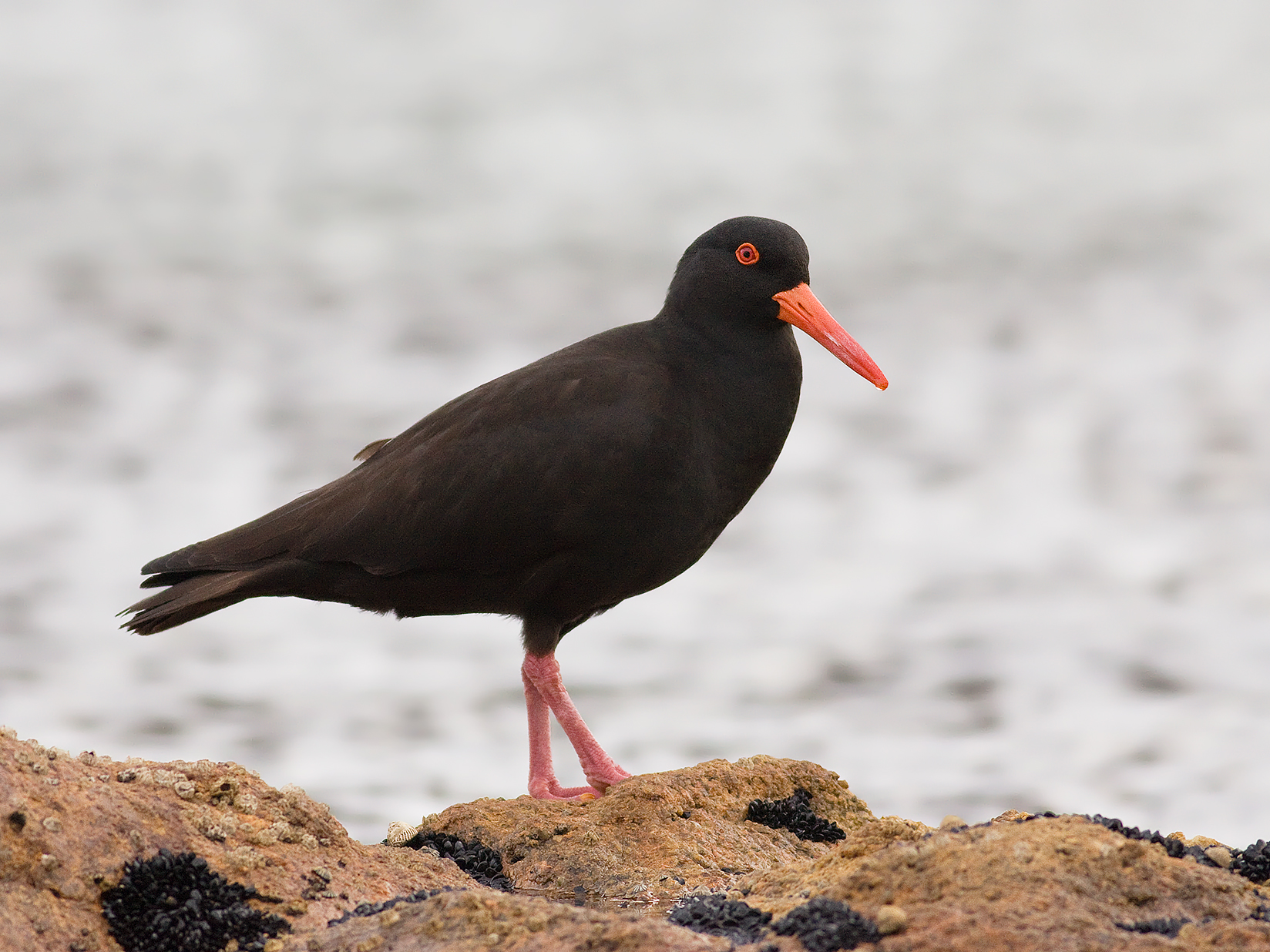 Sooty Oystercatcher (Haematopus fuliginosus), Coles Bay, Tasmania, Australia